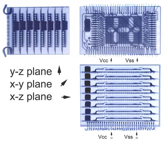 3D Package XRay